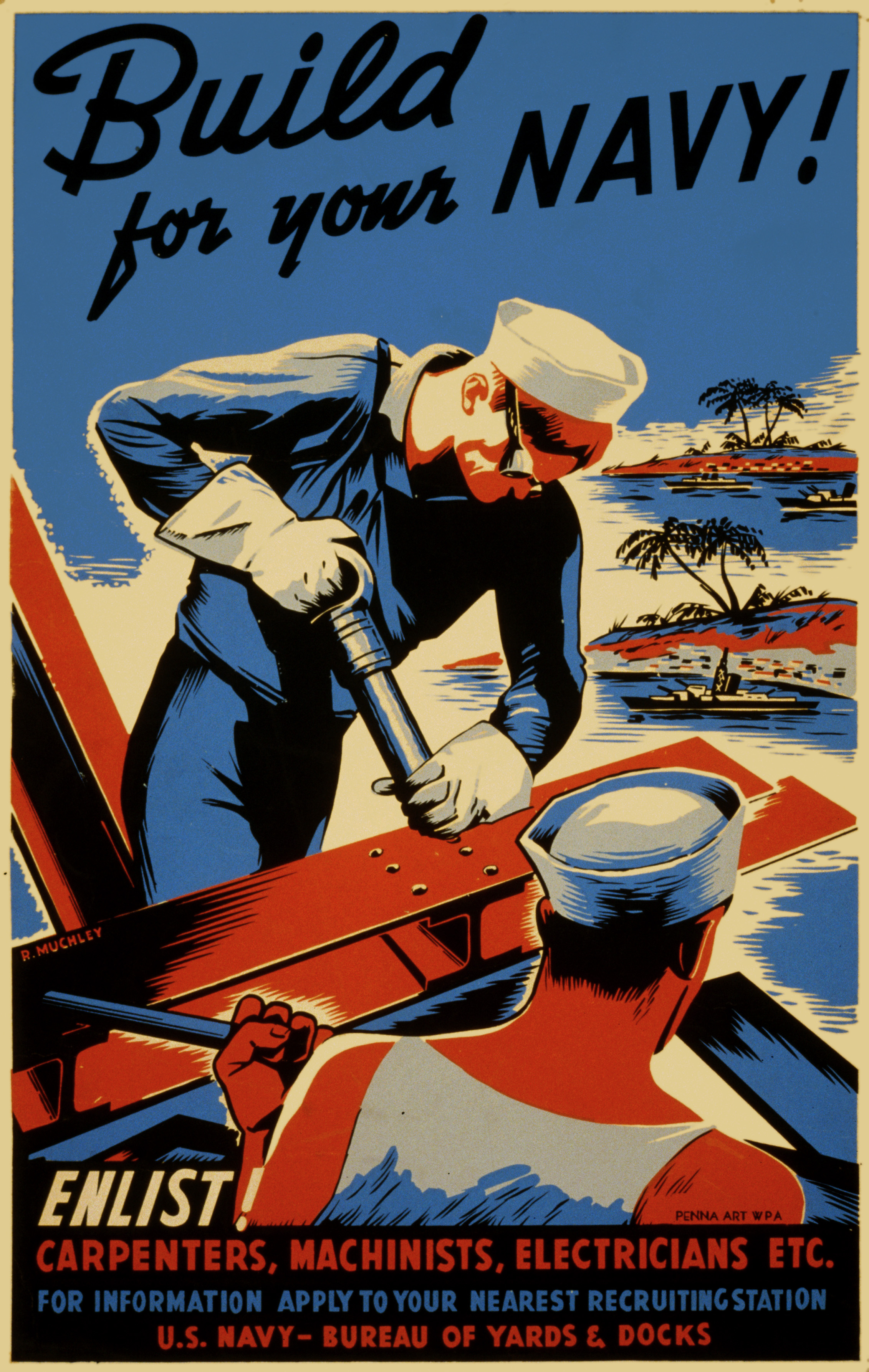 Poster encouraging skilled laborers to join the Seabees as part of the war effort: "Build for your Navy! Enlist! Carpenters, machinists, electricians etc. "